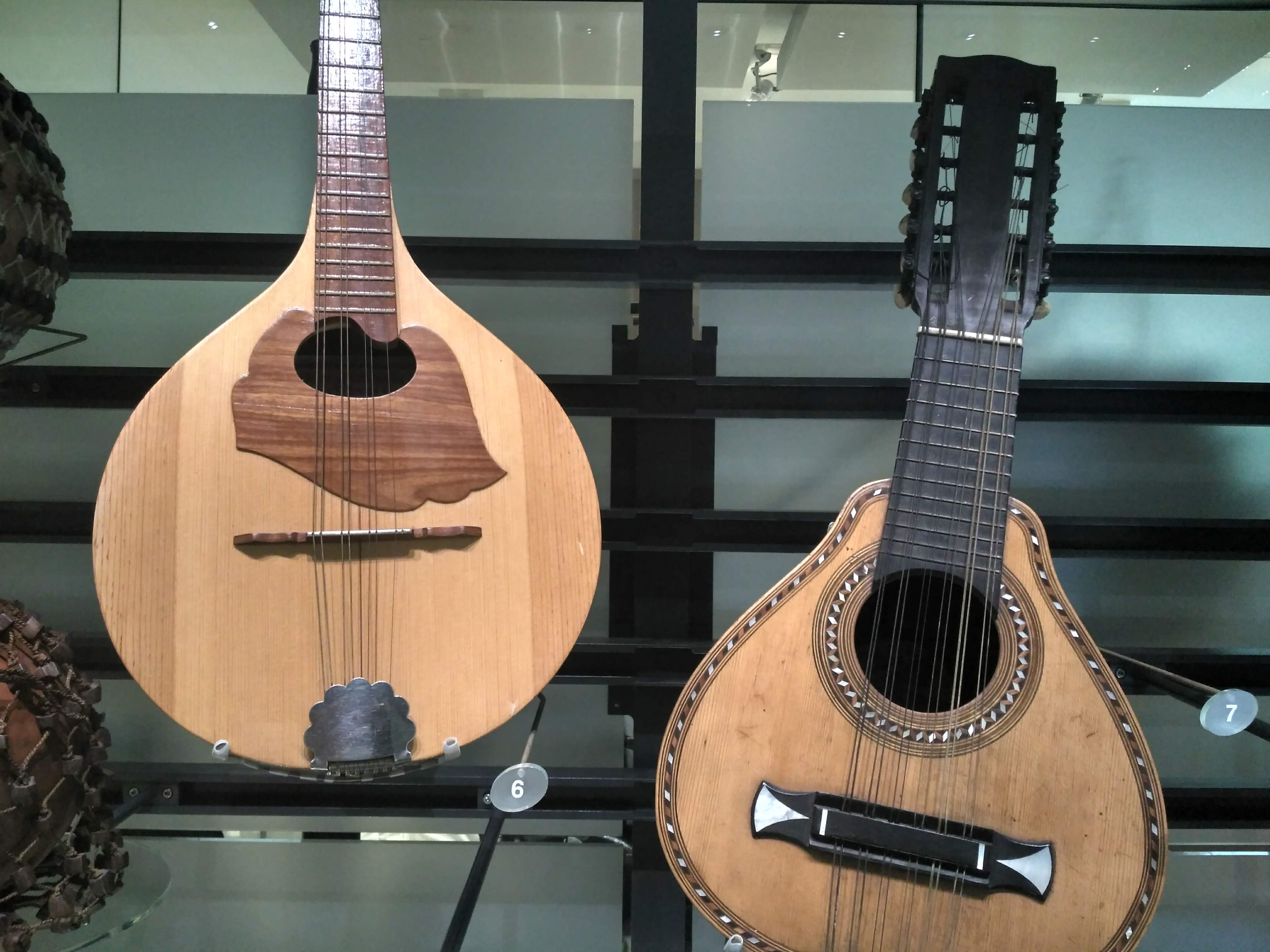 A set of images of musical instruments from the Horniman Museum in London, UK. Taken by Jo Dusepo 24/5/19